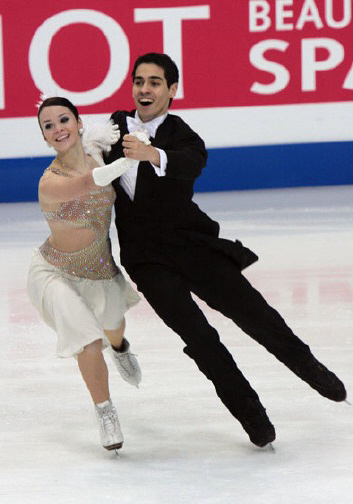 Anna CAPPELLINI & Luca LANOTTE during their Finnstep compulsory dance at the 2009 European Figure Skating Championships